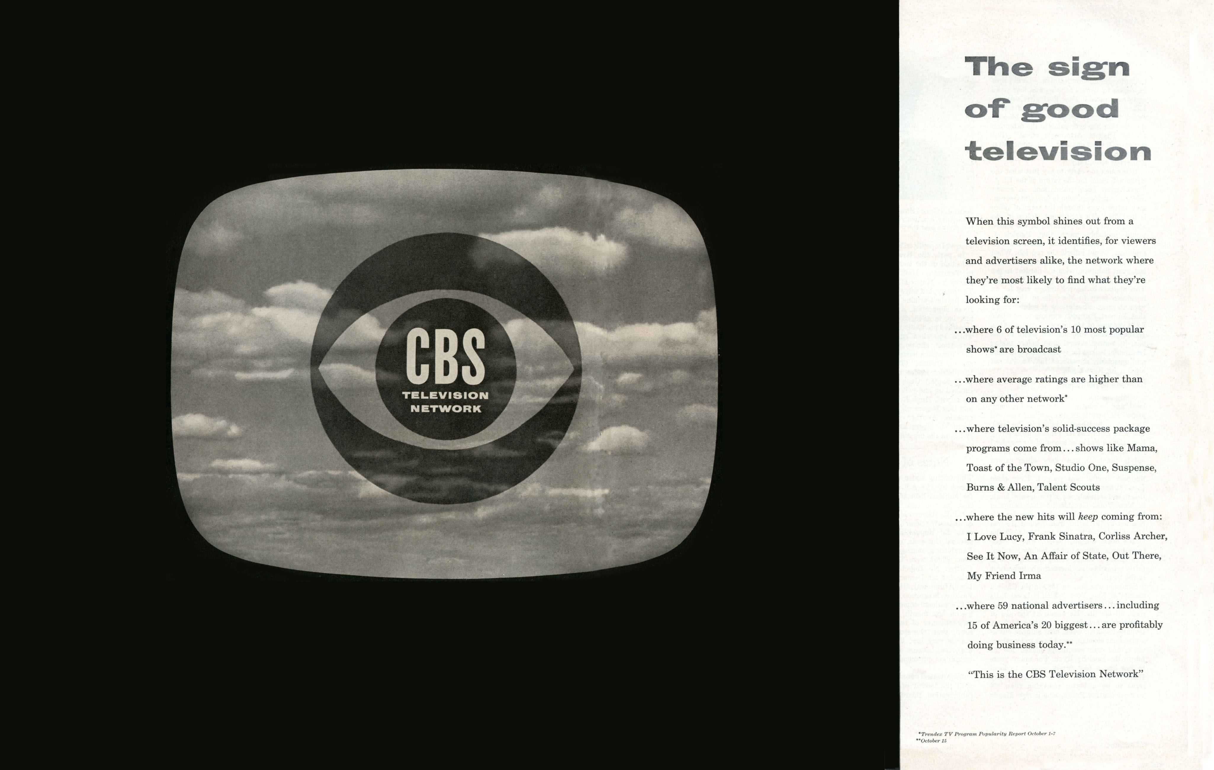 A December 1951 advertisement for the CBS Television Network. The "Eye" logo was introduced on October 20, 1951. Fortune magazine, volume 44 number 6, December 1951, pages 50 and 51. This 10.25 by 13 inch (26 by 33 cm) magazine has 232 pages. The small text to the bottom right of the eye image: "*Trendex TV Program Popularity Report October 1-7" and "**October 15"